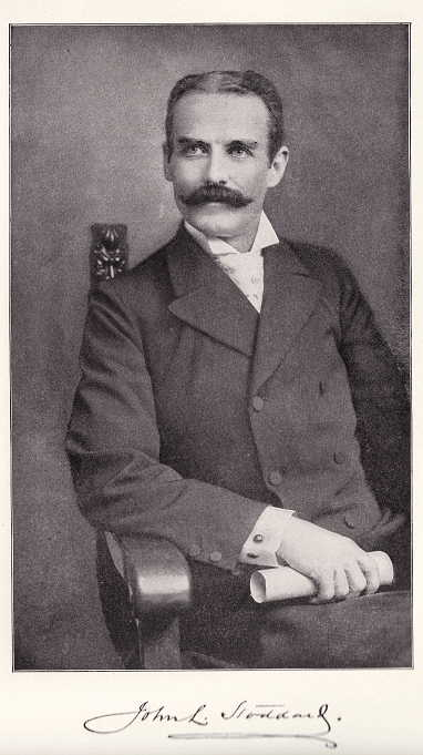 This is a scan of the frontis of his most attributed book, "John L. Stoddard's Lectures". Copyright is 1897; printed in 1905.